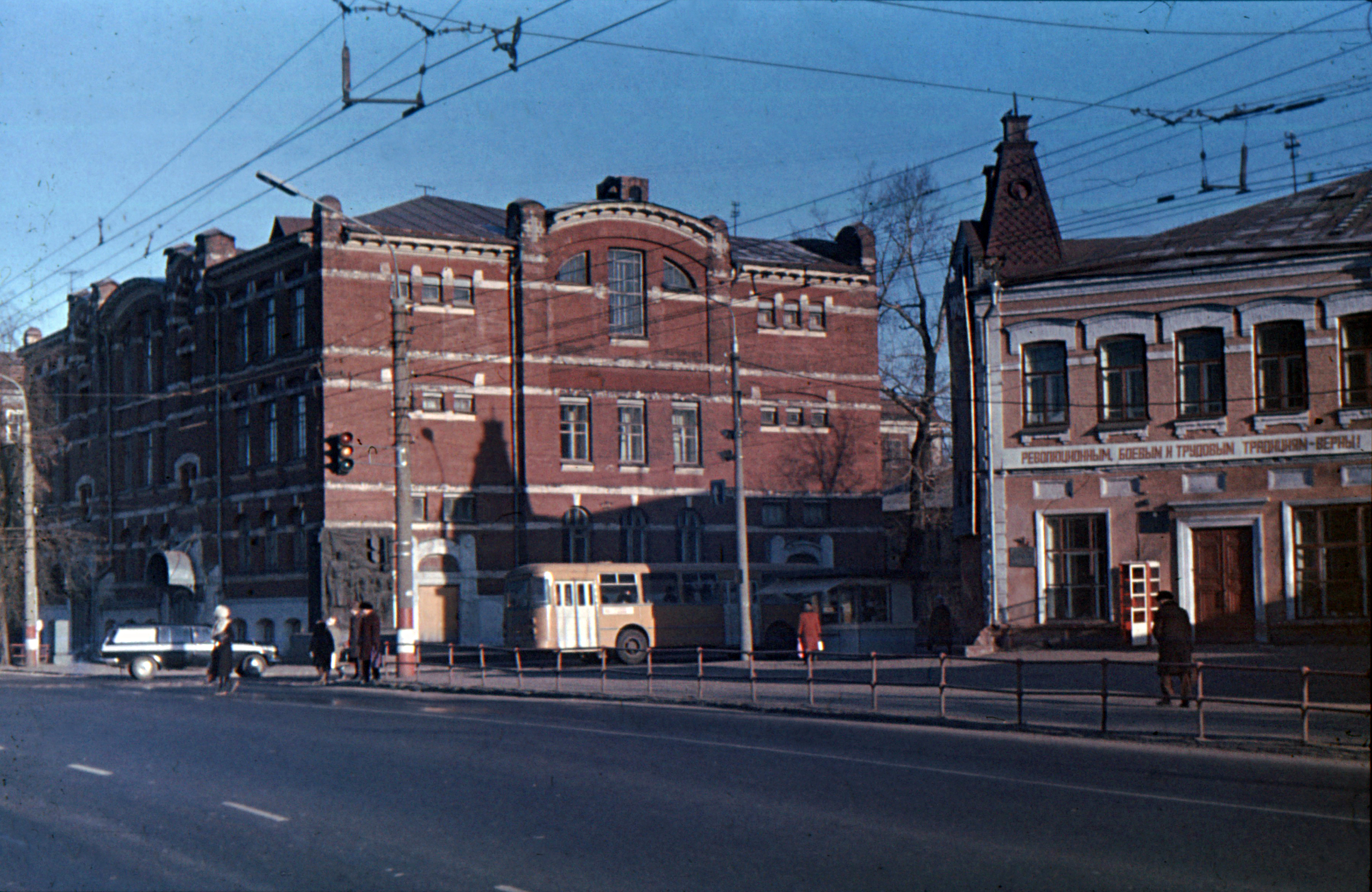 Gorky City (now Nizhny Novgorod). LiAZ-677 in Sormovo